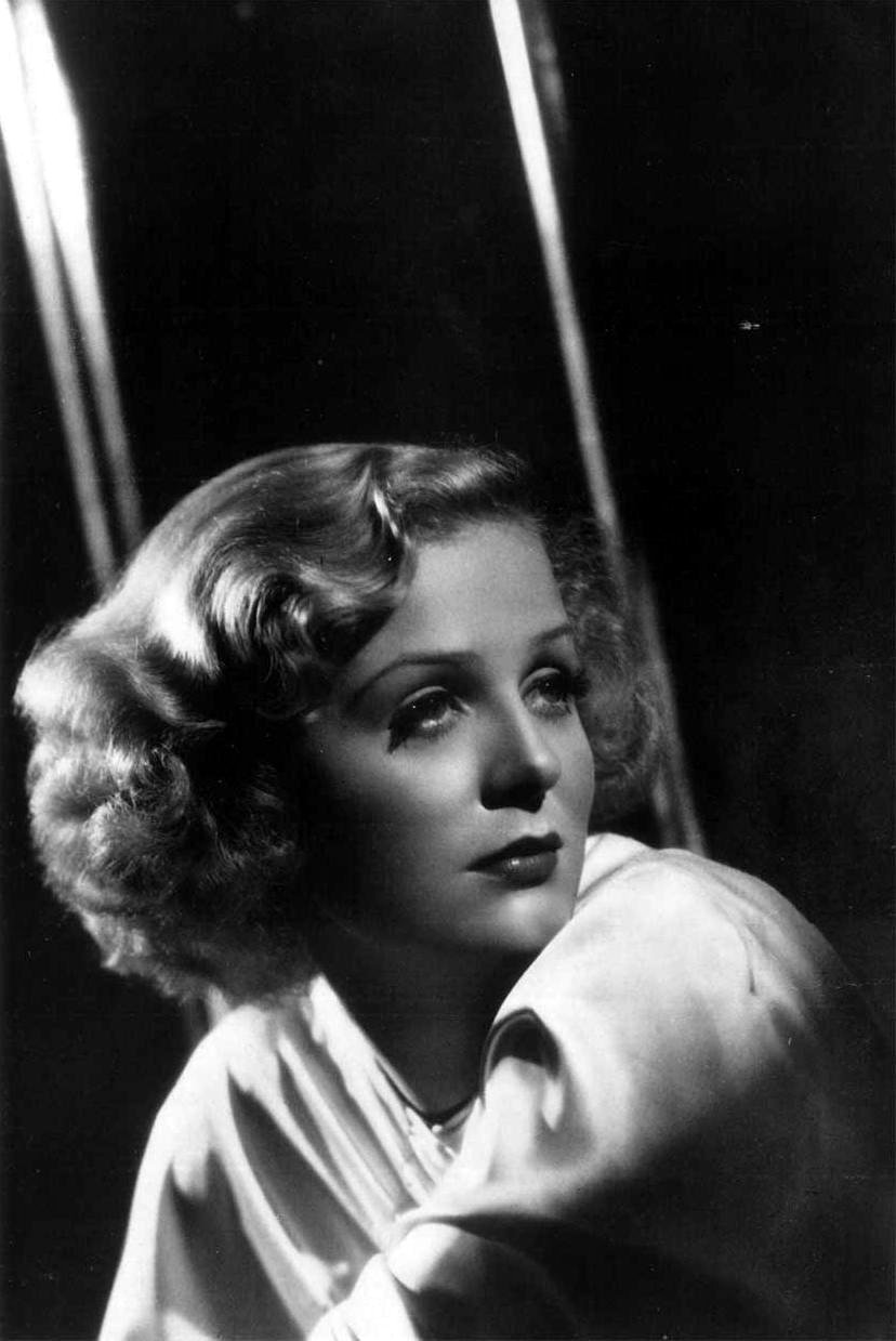 Publicity photo of Gloria Stuart for Argentinean Magazine. (Printed in USA)